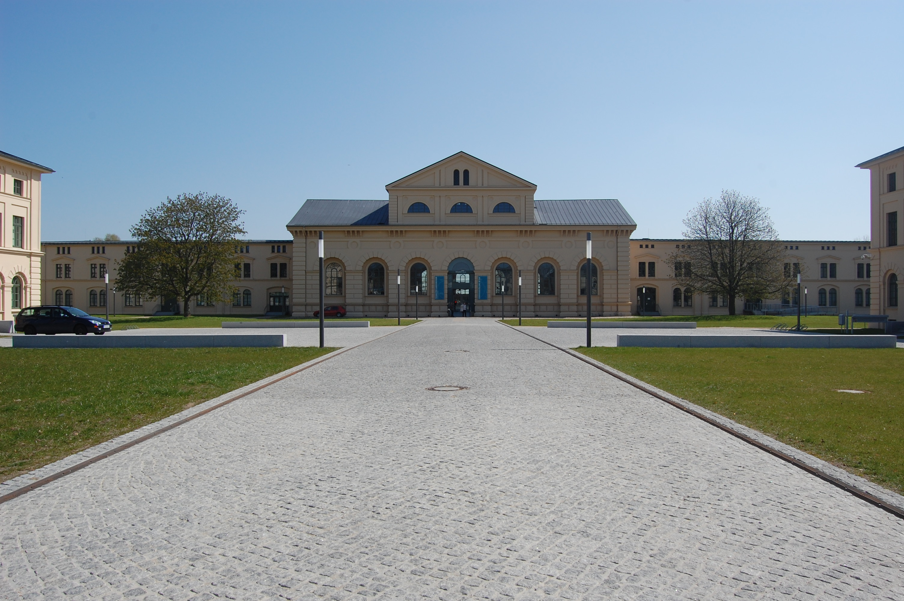 Wozownia w Schwerinie